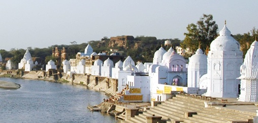 Bateshwar Temples 70 Kms from Agra, Uttar Pradesh, India